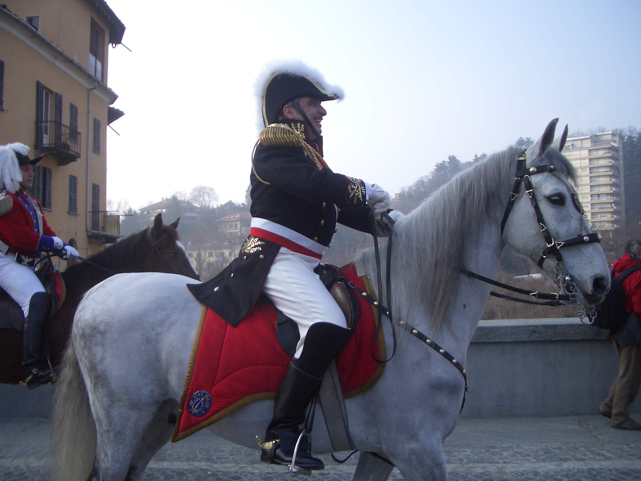 Carnival of Ivrea, “The General on horse”